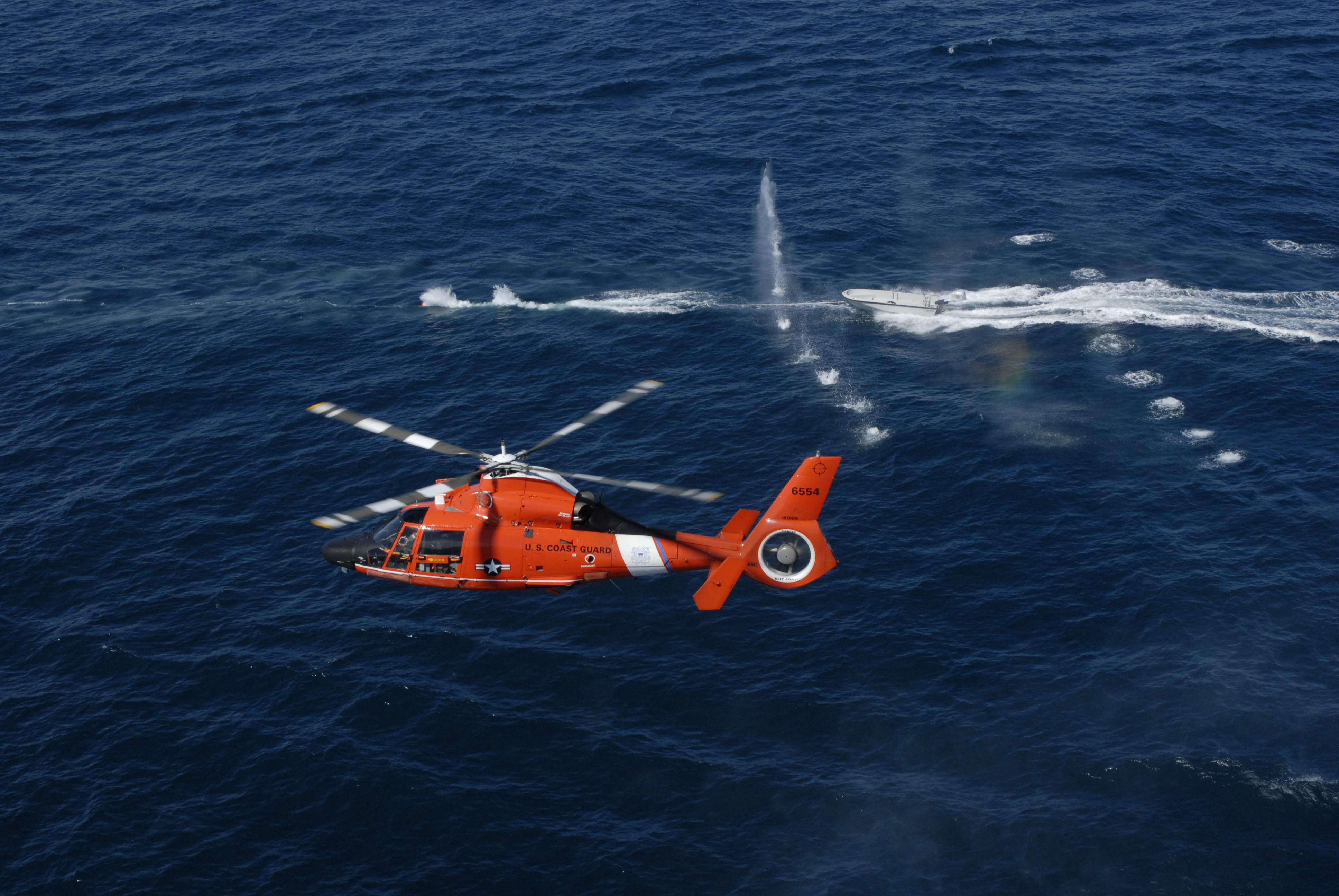 JACKSONVILLE, Fla. - A helicopter crew from the Helicopter Interdiction Tactical Squadron Jacksonville trains off the coast of Jacksonville, Thursday, Sept. 24, 2009. This is a demonstration of warning shots fired at a non-compliant boat. HITRON hosted a production crew for the Military channel's Modern Sniper. (U.S. Coast Guard photo/Petty Officer 3rd Class Michael Hulme)